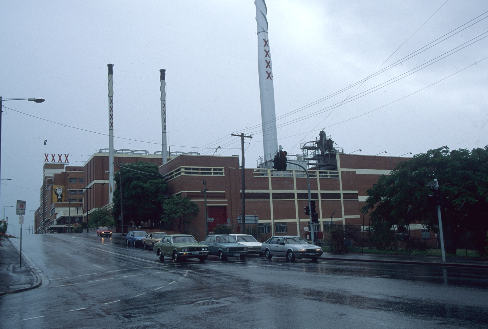 XXXX Brewery in Brisbane